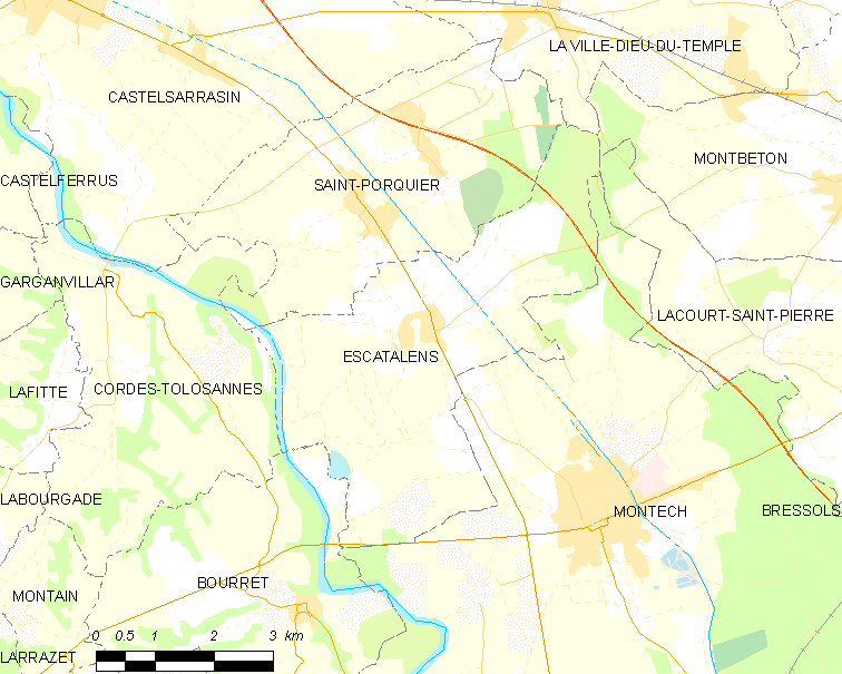 Map of French municipality Escatalens